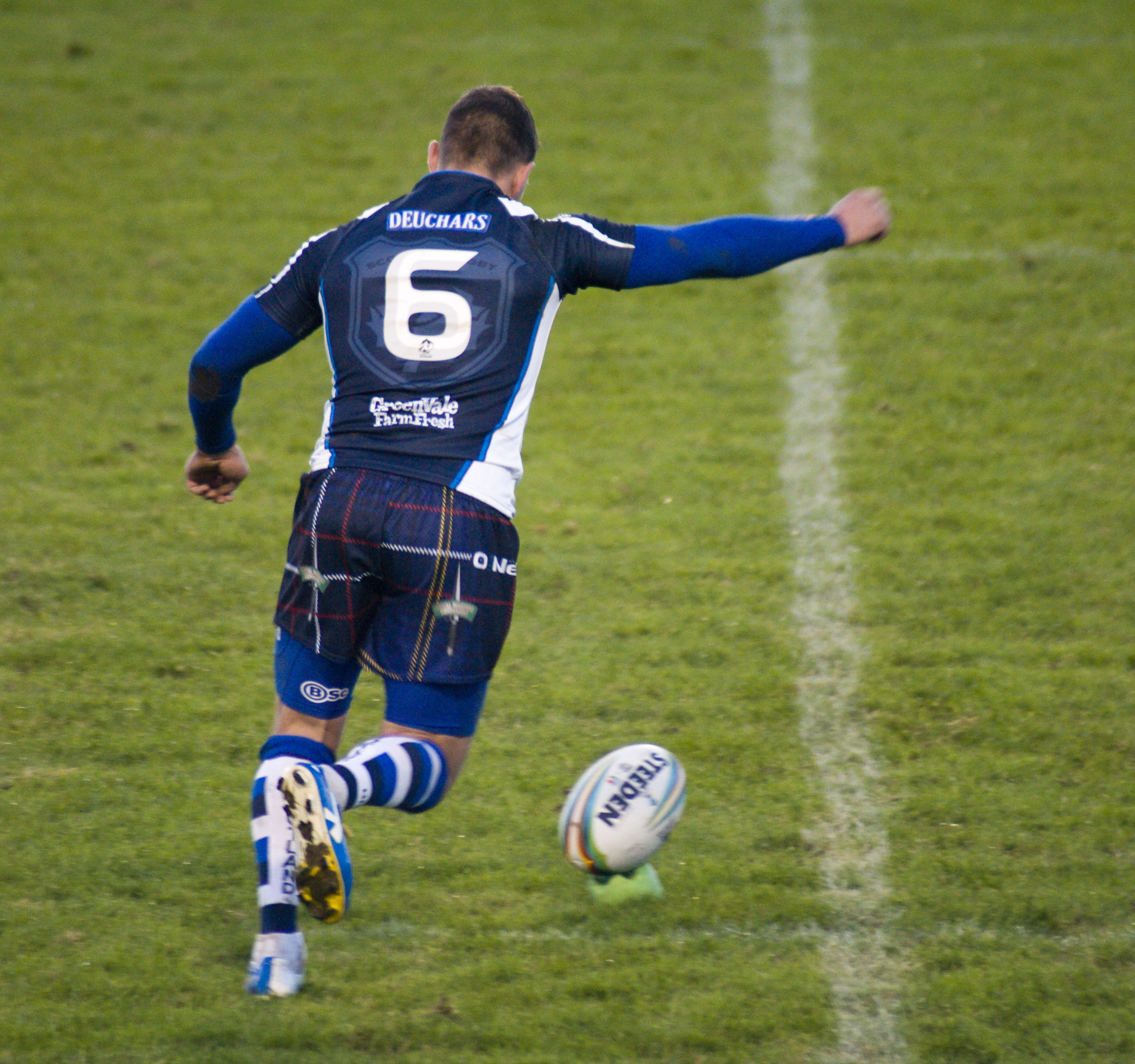 Danny Brough during 2013 Rugby League World Cup match between Scotland and Italy at Derwent Park in Workington.